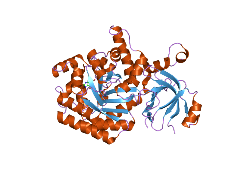 Cartoon representation of the molecular structure of protein registered with 2uz9 code.